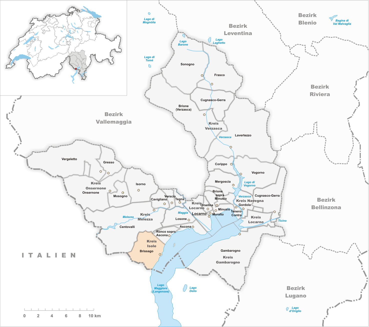 Municipality Brissago Artist: Tschubby